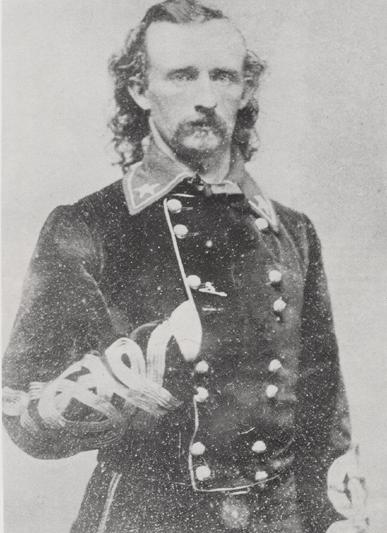 Brigadier General George Armstrong Custer, wearing a custom-made blue velvet uniform, ca. 1864